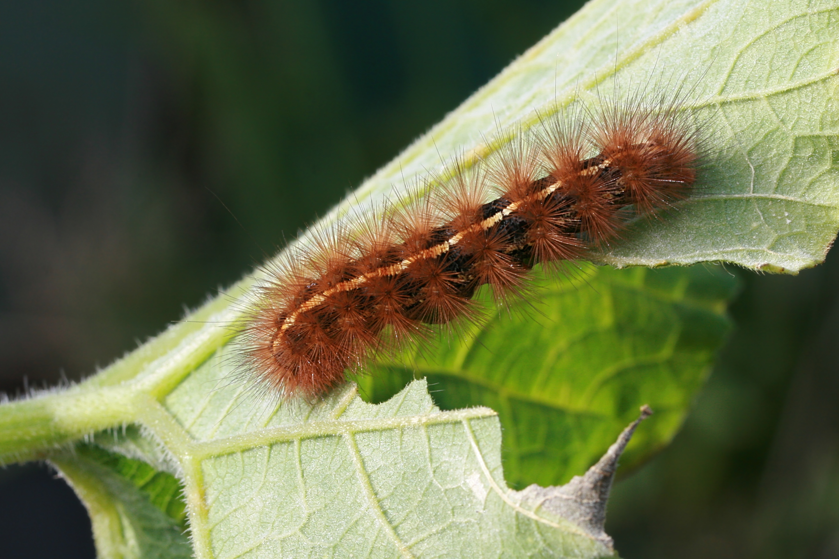 The caterpillar of Ardices canescens eating a Japanese pumpkin leaf in suburban Sydney, NSW, Australia.